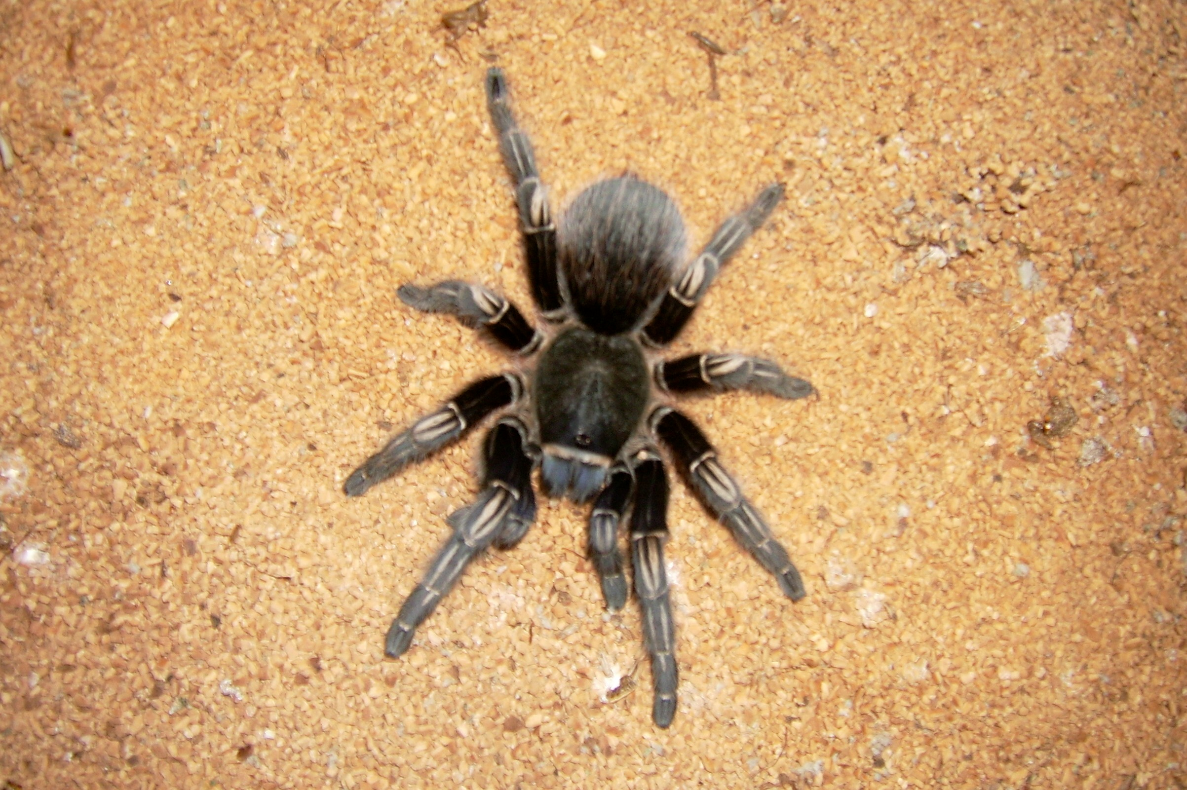 An image of a Tarantula, I believe it is of a Chilean Rosehair. It is an adult female of Aphonopelma seemanni, a Central American species that ranges from Northeastern Costa Rica through Nicaragua into Honduras and El Salvador. They are never found in dry sand, this background is unnatural. They can be found in seasonal dry forest, but not on dry sand.